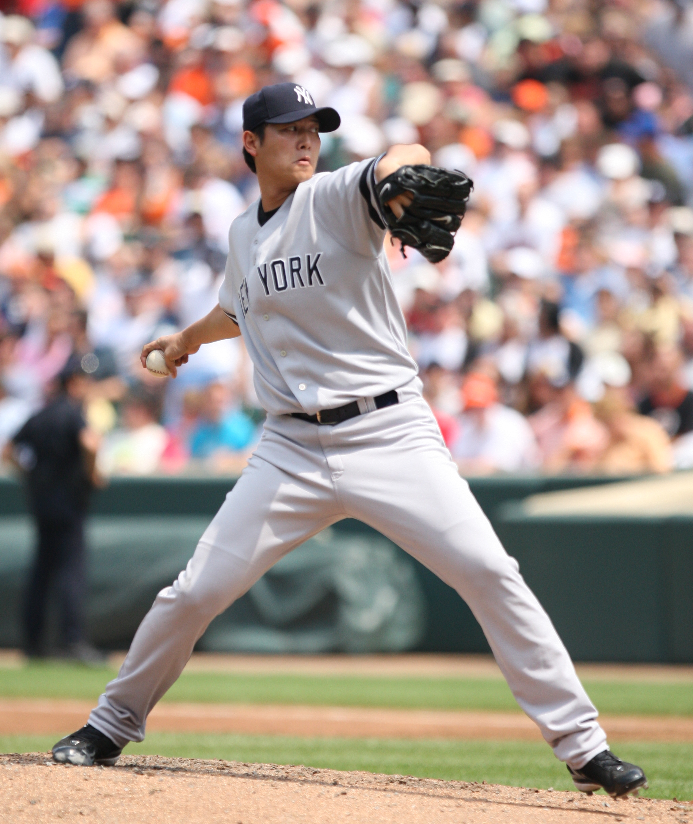 New York Yankees Chien-Ming Wang delivers a pitch during the first inning of a baseball game against the Baltimore Orioles, Sunday July 29, 2007 at Camden Yards in Baltimore. .